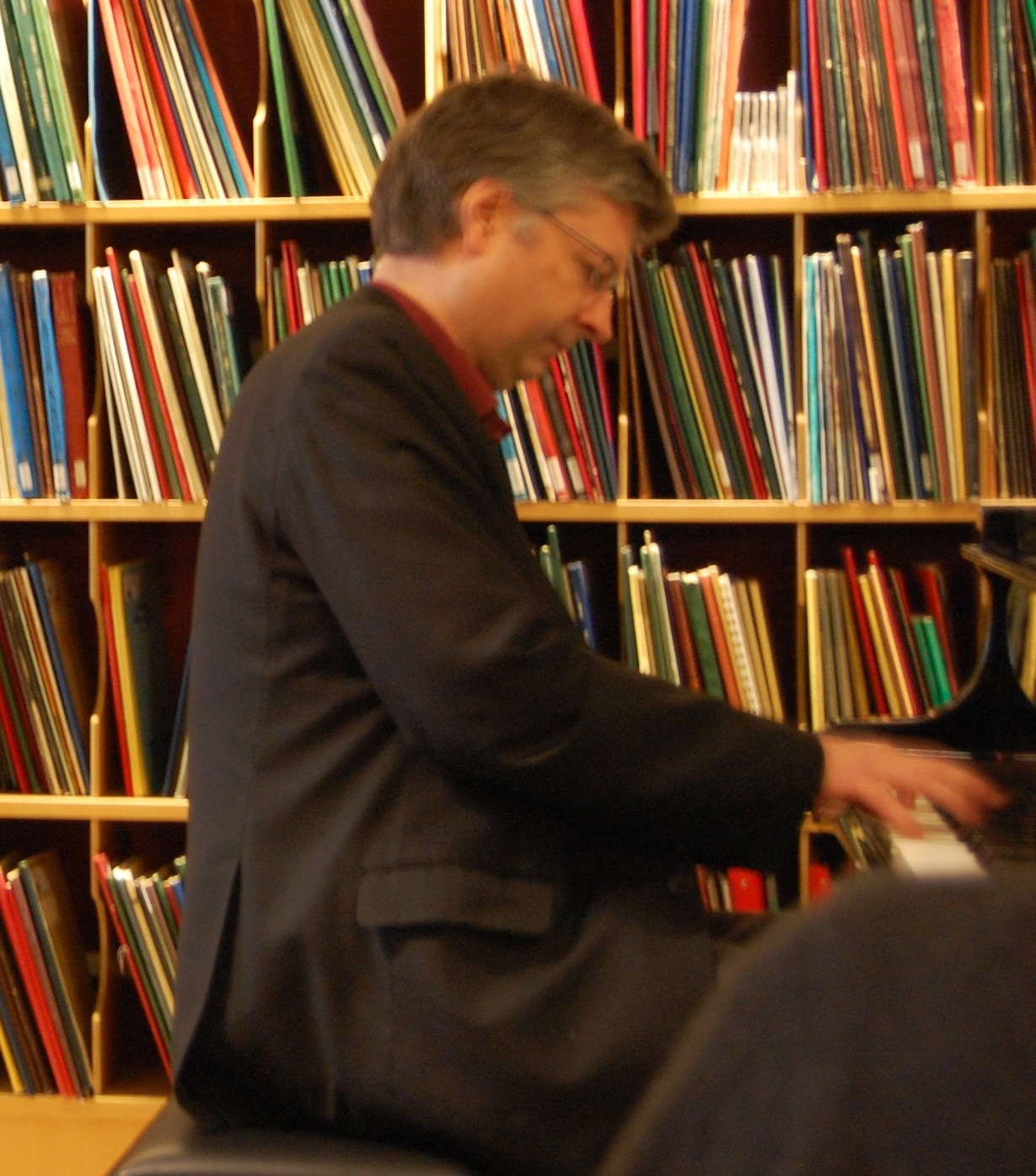 Norwegian pianist Einar Røttingen at Bergen public library